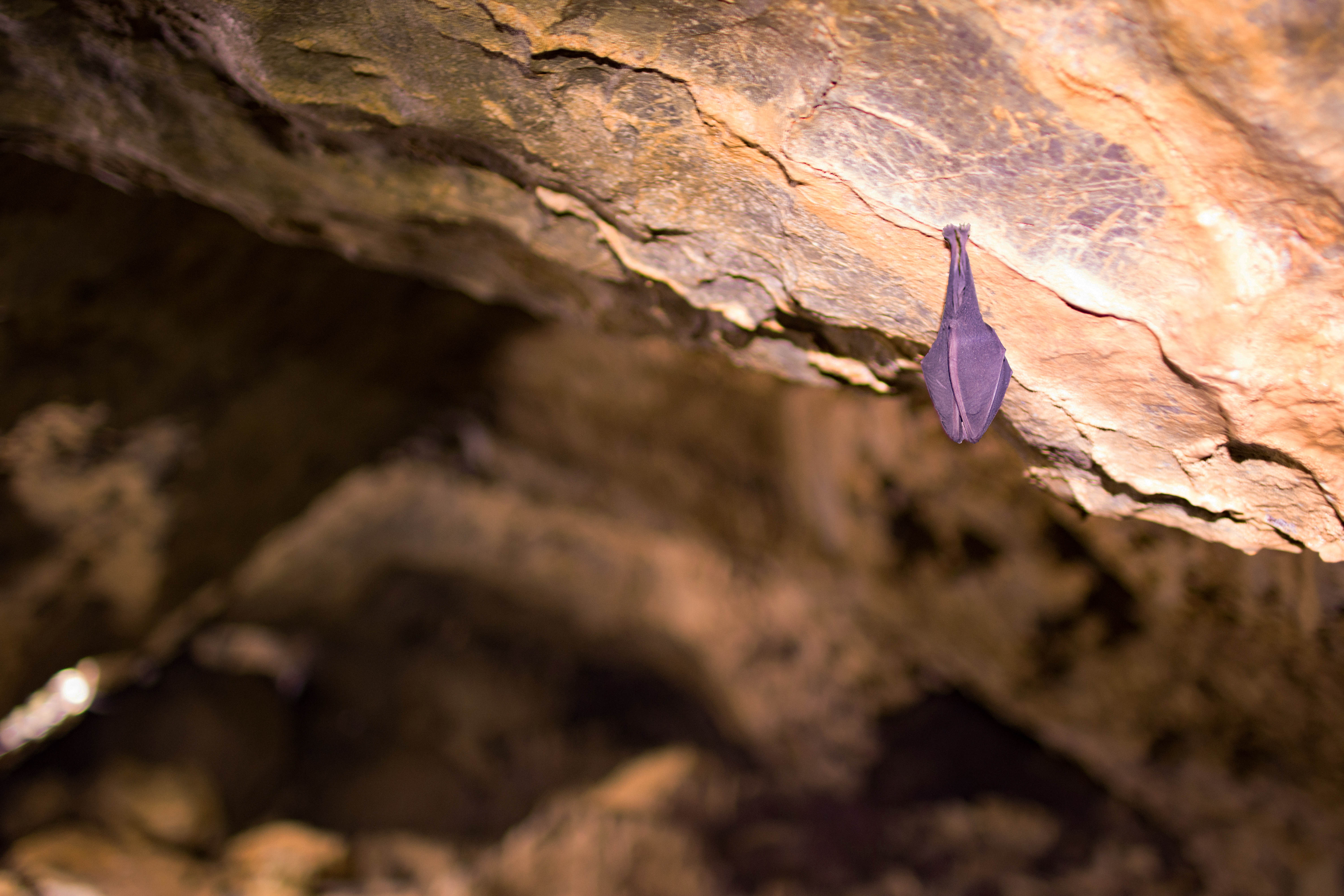 Rhinolophus ferrumequinum observed in show cave area of Kawachi no Kaza-ana("Kawachi Wind Cave").